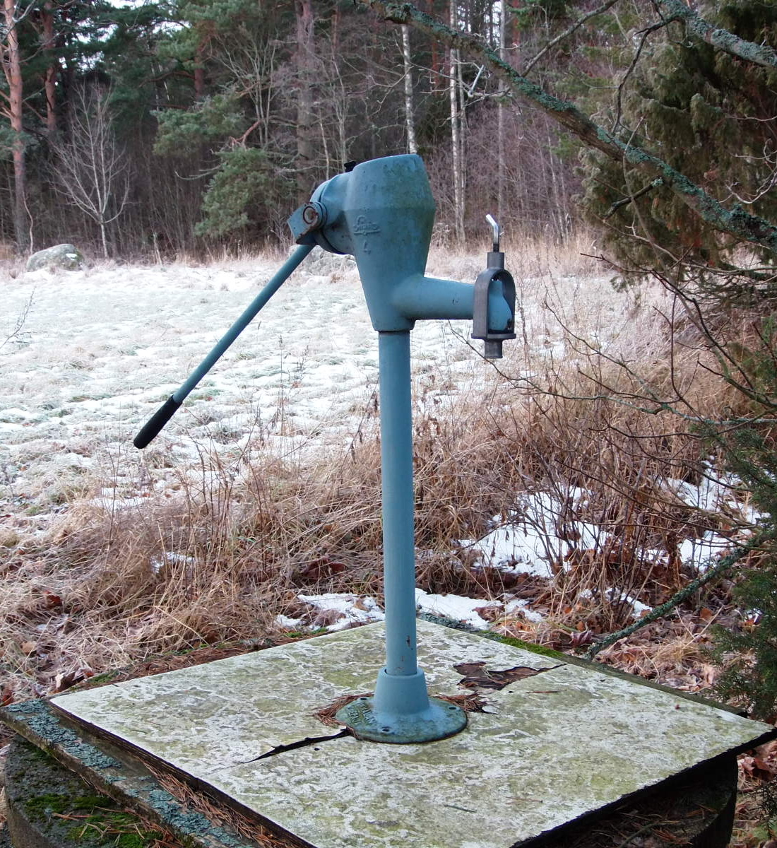 Hand pump at the well.